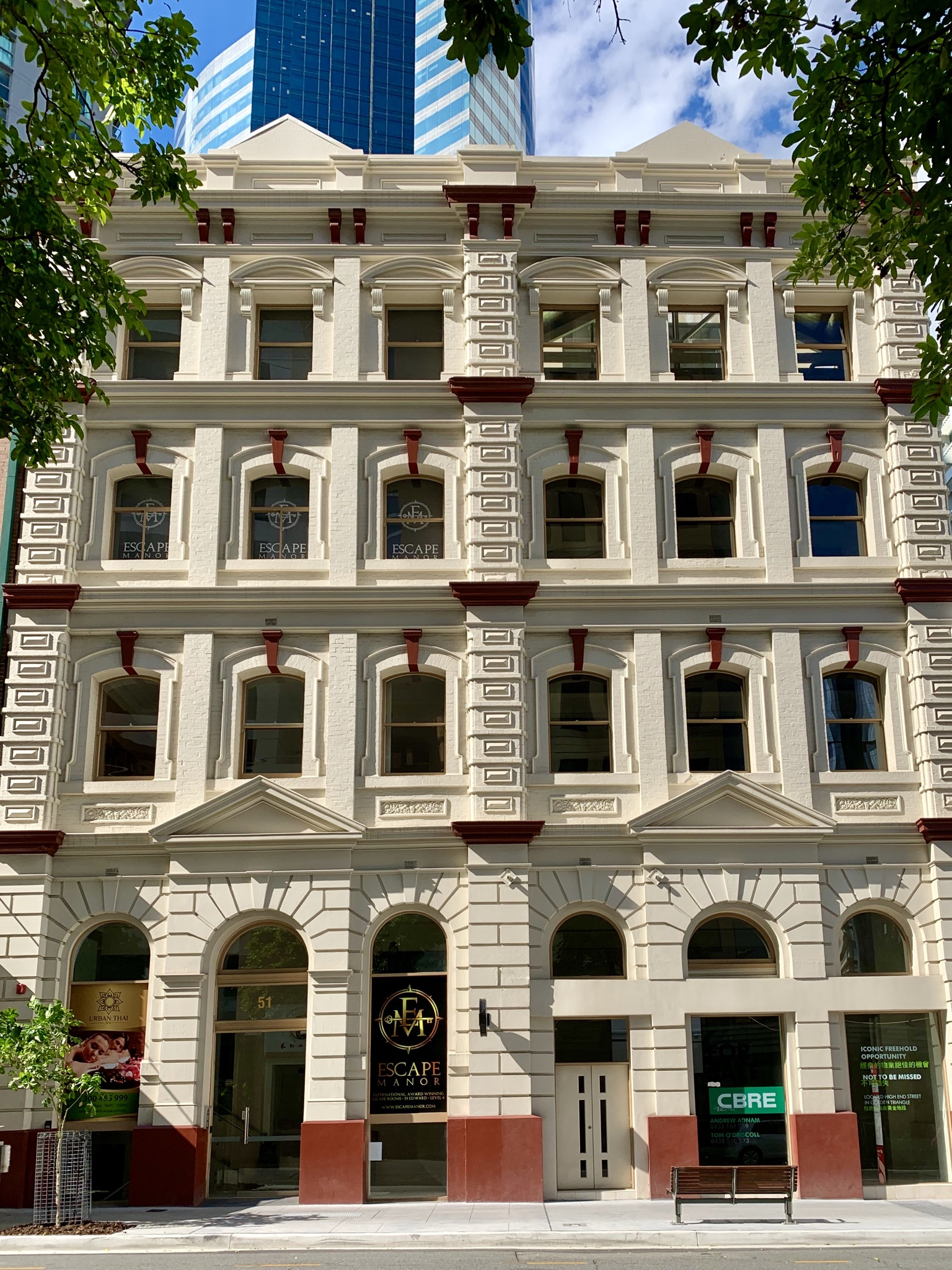 Spencers Building, 51 Edward Street during the COVID-19 pandemic in Brisbane, Australia